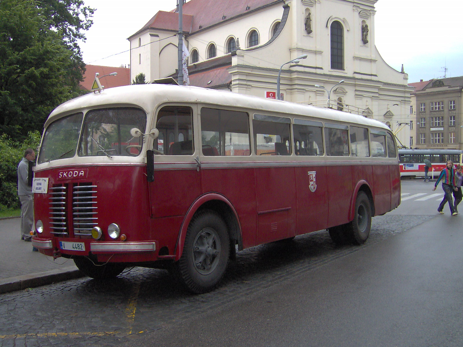 Historical Škoda 706 RO bus in Brno